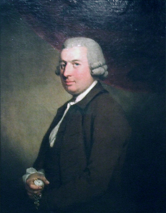 Chronometer-maker John Arnold oil on canvas 87 x 68 cm circa 1767